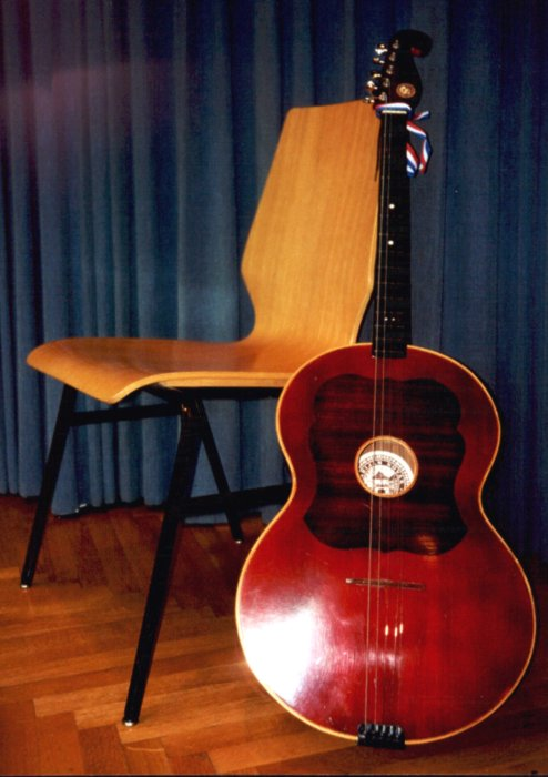 Bugarija, a Croatian instrument used in tamburica ensembles. Size compared to that of a chair.